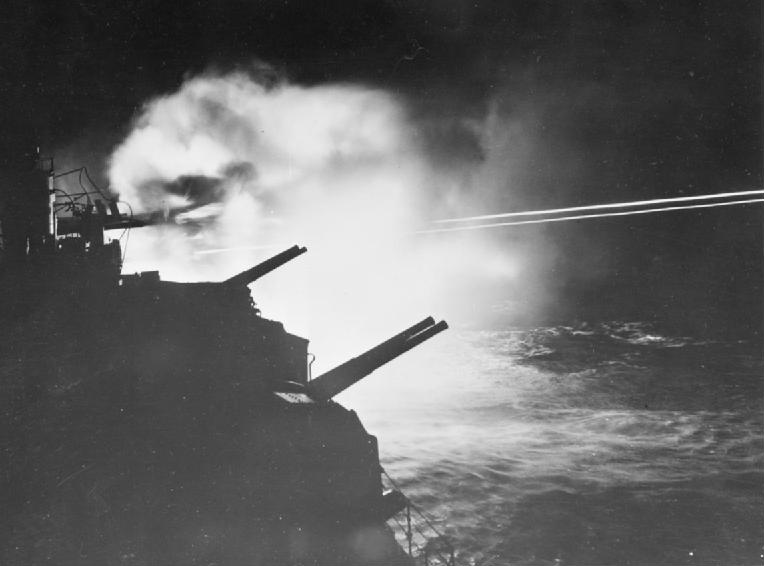 The 6-inch guns of HMS MAURITIUS firing during a night action in Audierne Bay between Brest and Lorient, France. The flash from the guns is silhouetting two of the cruiser's twin 4 inch turrets